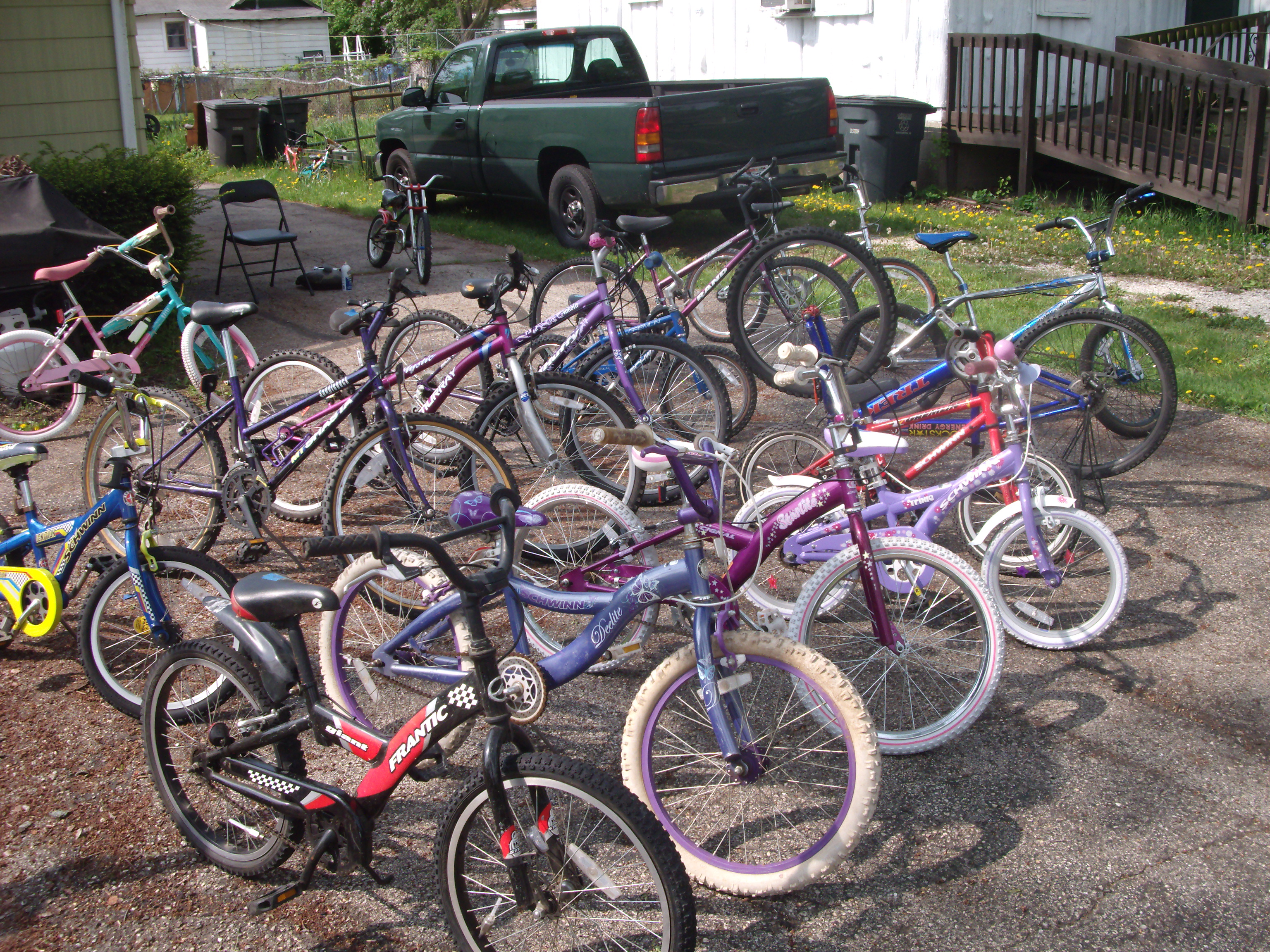 A large group of bicycles together.